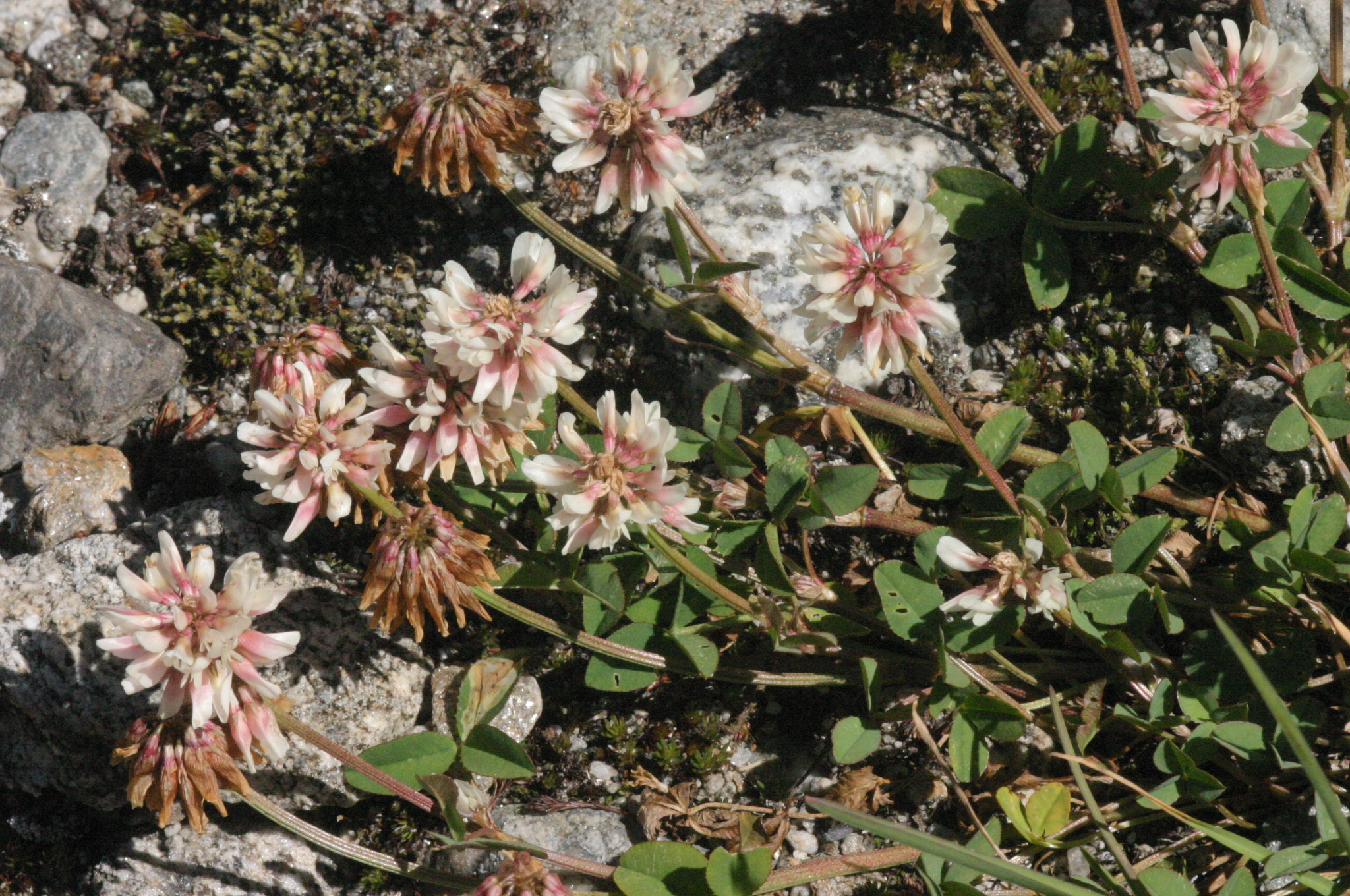 Trifolium pallescens